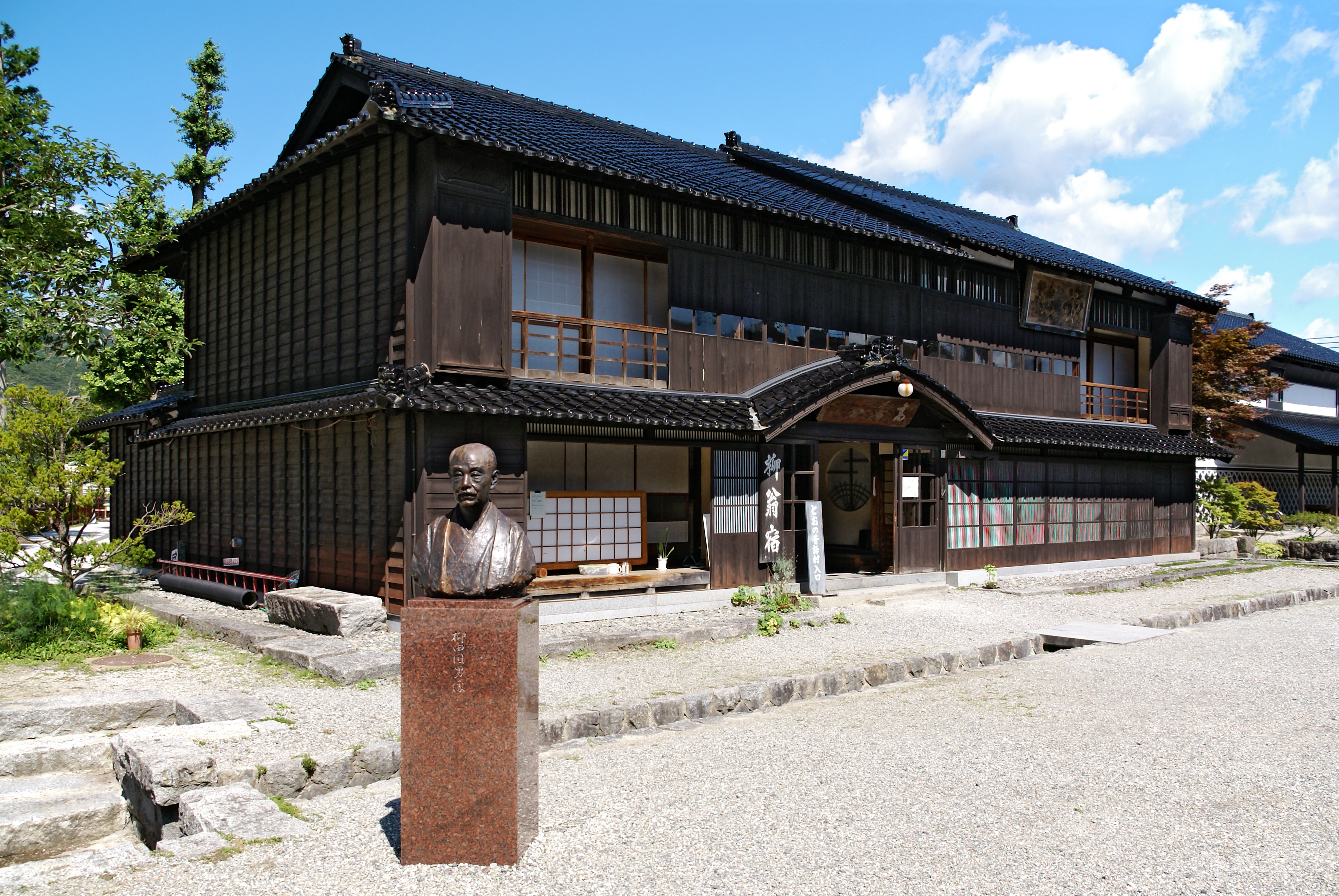 Tono-mukashibanashi-mura (A village of a Japanese old tale) in Tono, Iwate prefecture, Japan